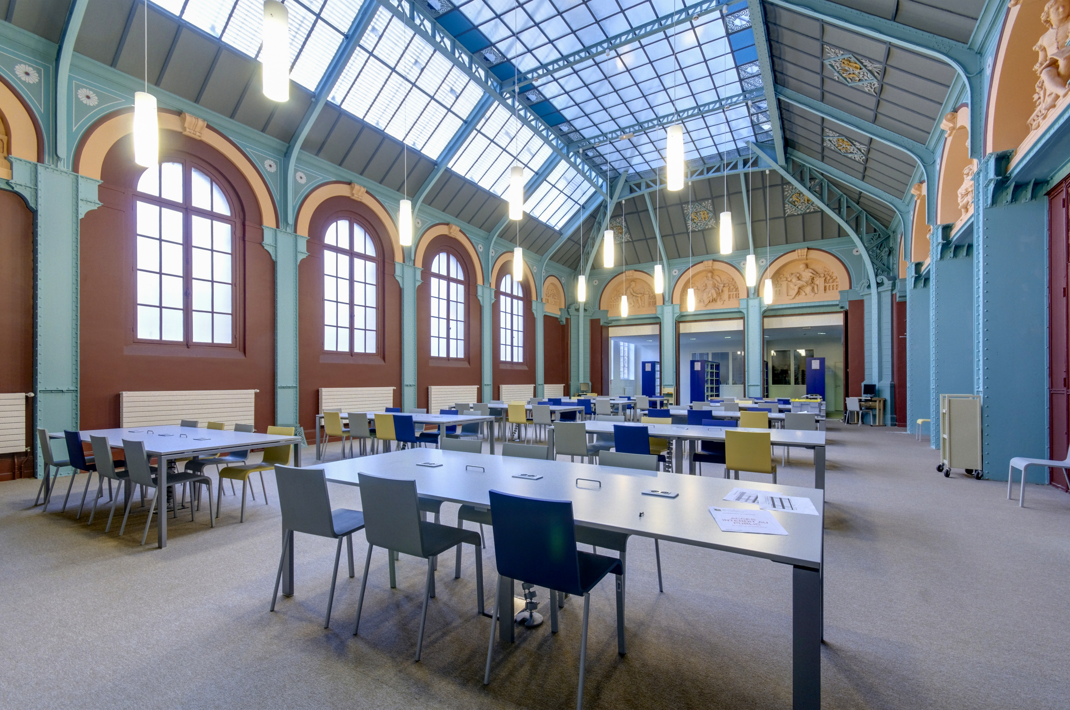 Drawing classroom of the Collège Sainte-Barbe, Paris.